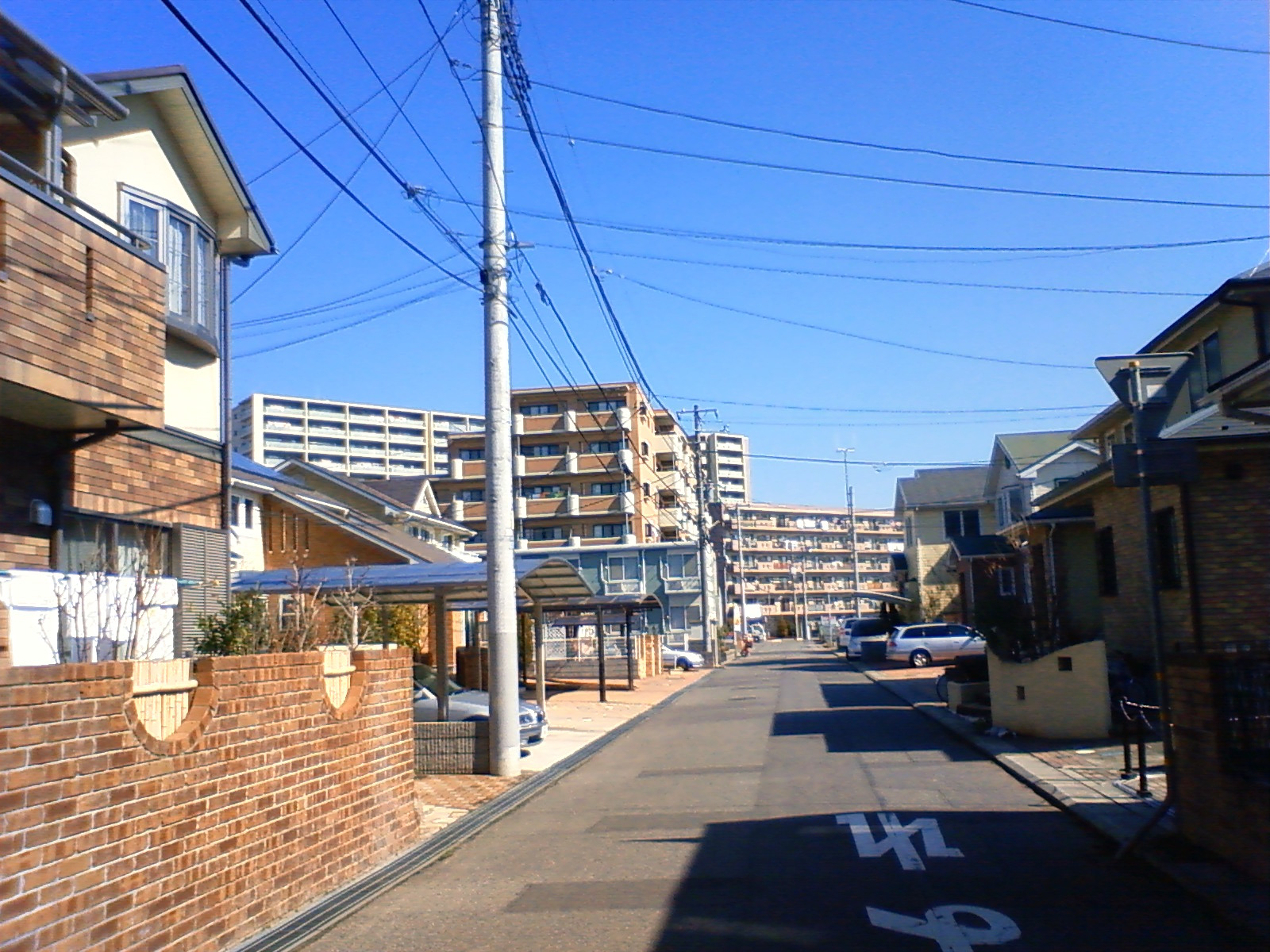 This is a landscape of Higashiarai, Tsukuba, Ibaraki, Japan.